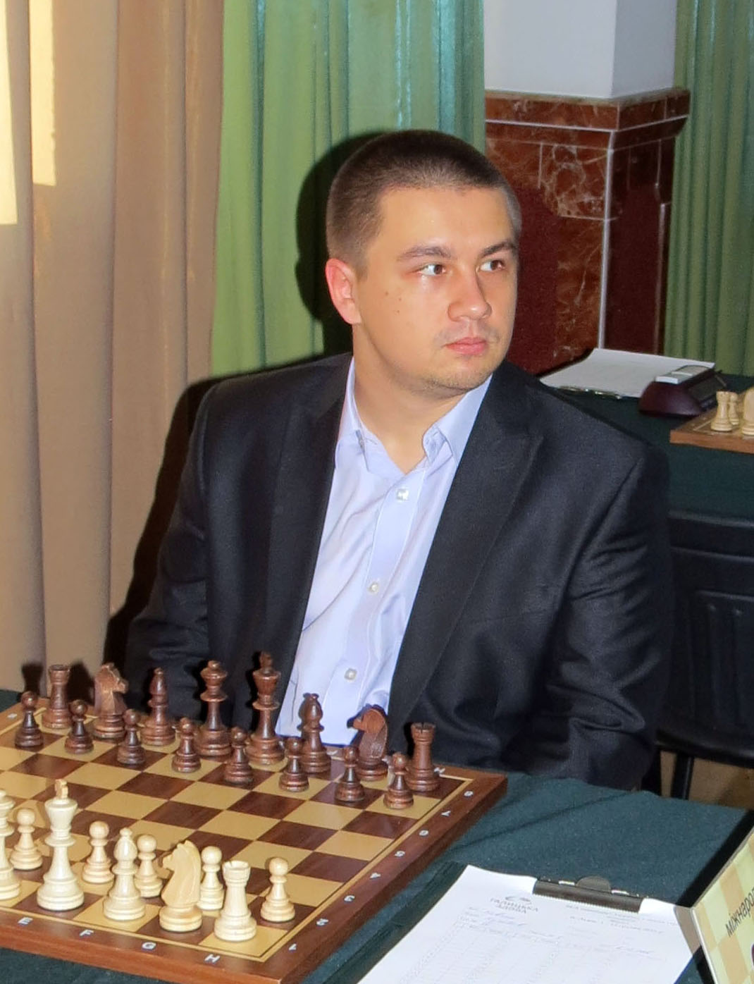 Yuriy Kuzubov Ukrainian Championship (december 2015)